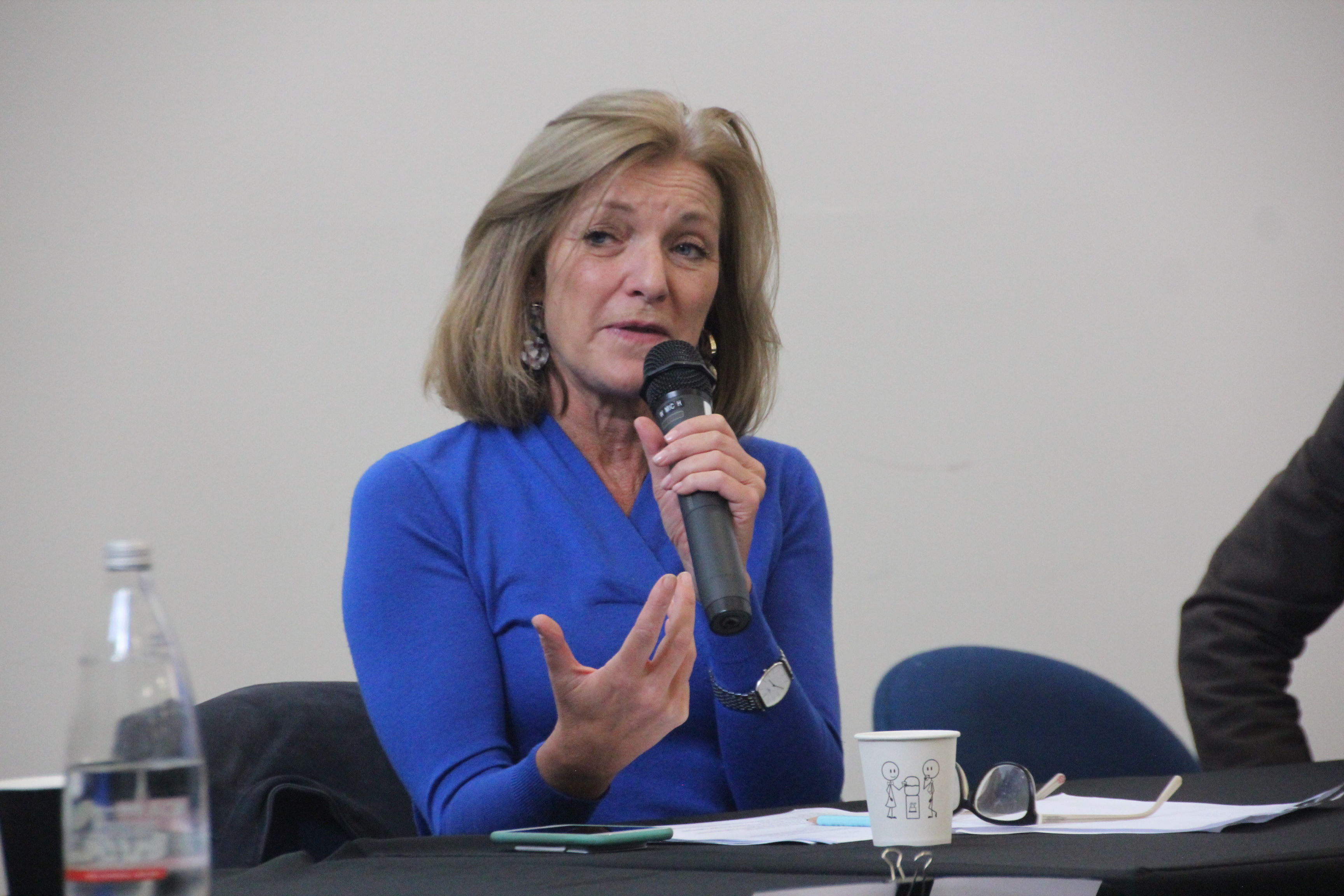 Fiona Patten MP at a Town Hall meeting in 2019 on Coburg Level crossing removal.